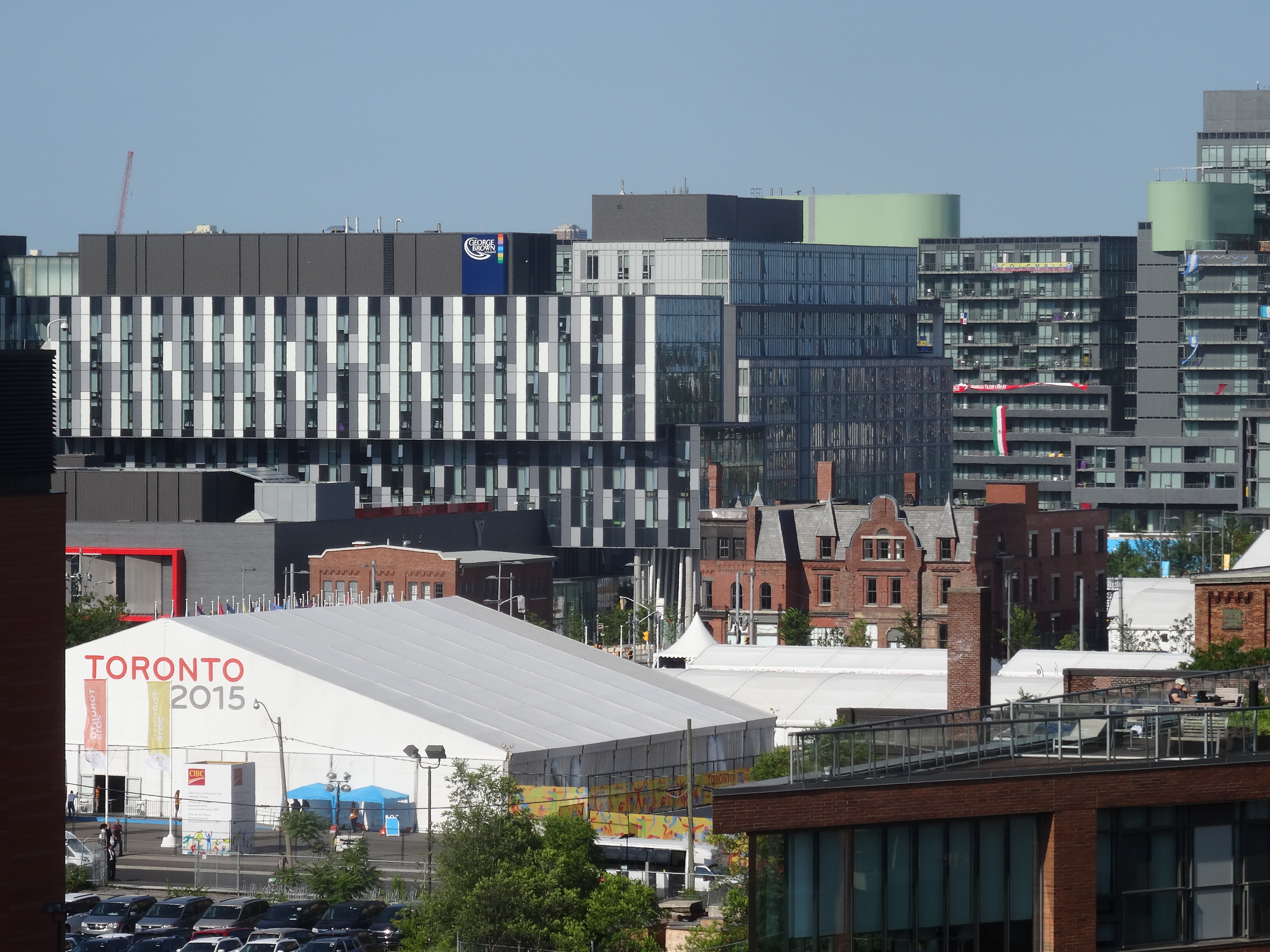 2015 Pan Am Athlete's Village, 2015 07 15 (2).JPG